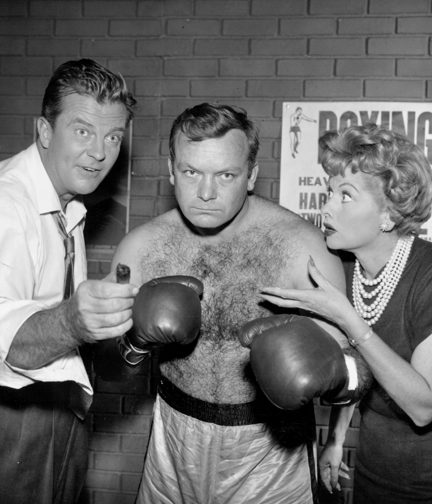 Publicity photo for the television program Desilu Playhouse. Lucille Ball had her first television role as someone other than Lucy Ricardo in this episode. From left: William Lundigan, Aldo Ray, and Lucille Ball. Ball plays a dancing teacher who has inherited a boxer (Ray) in the episode "K.O. Kitty" (telecast Nov. 17, 1958)